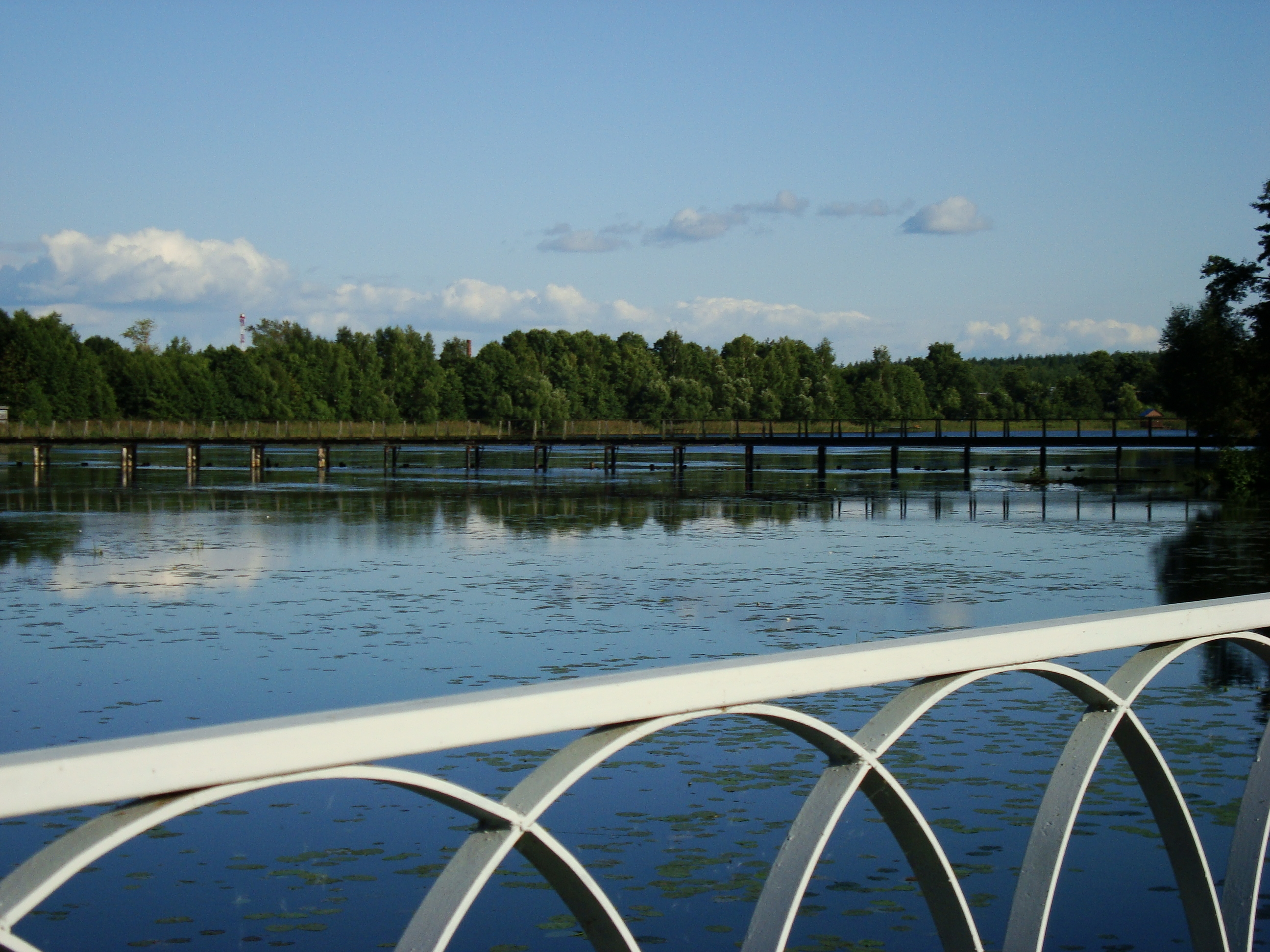 Bridges over Vvedenskoe lake.